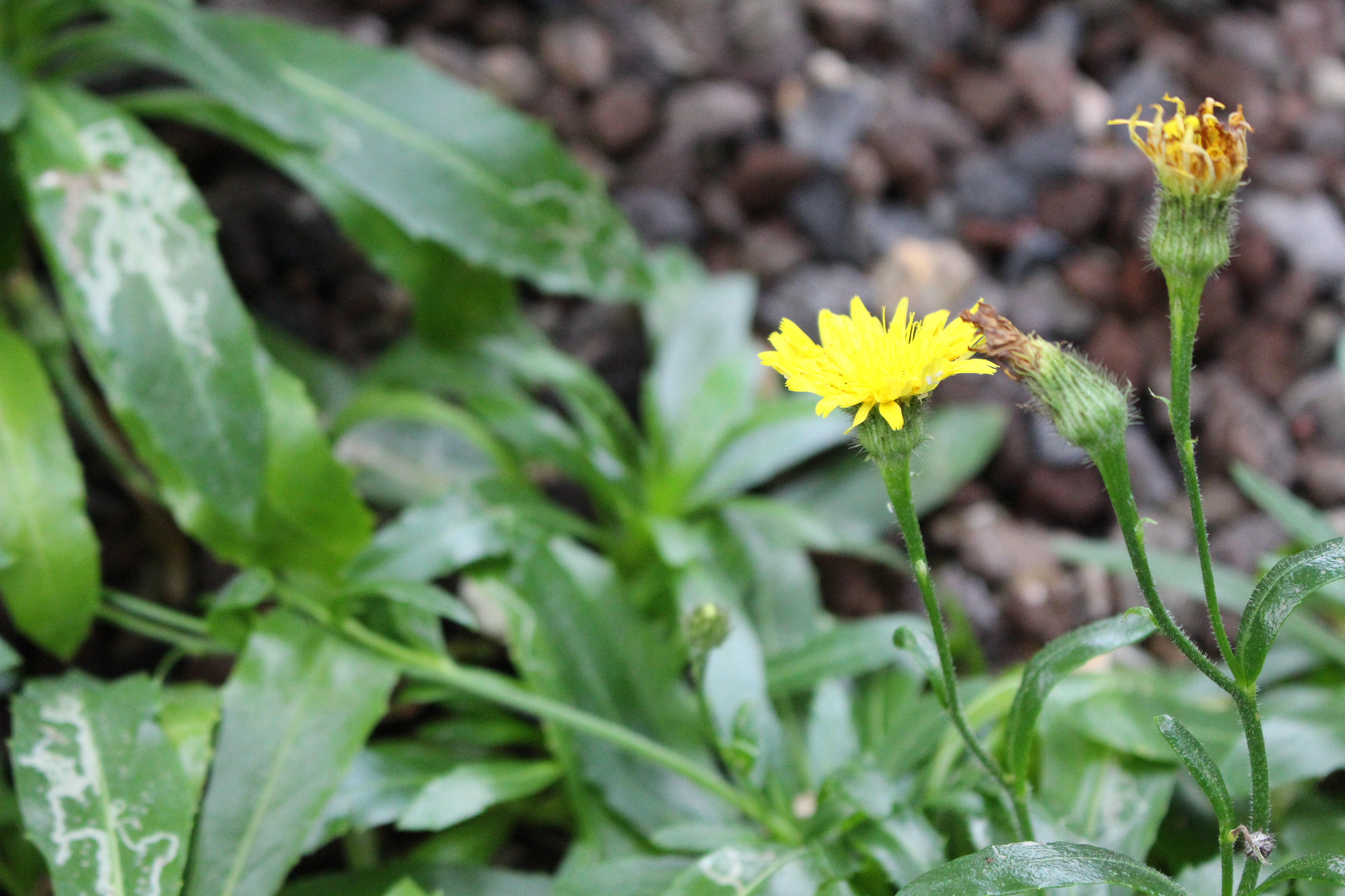 Flowers of H. oligocephala in the 'Botanika Bremen' in Bremen, Germany